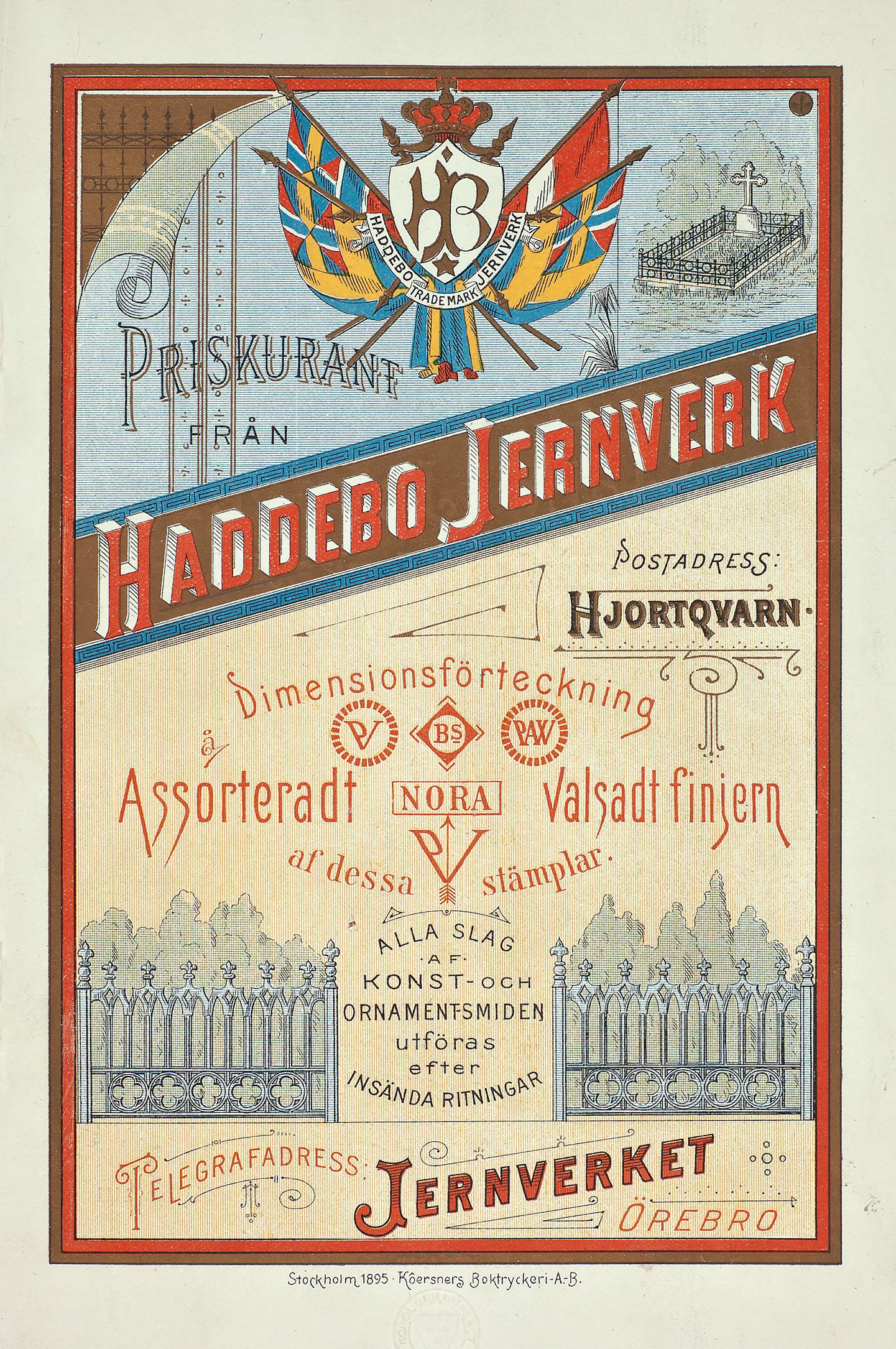 Haddebo jernverk, Hjortqvarn 1892-1896 Ur Kungl. bibliotekets samlingar – [librisid: 14799959] Länk